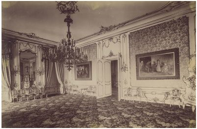 Salon in the baroque part of the Royal Castle of Budapest.